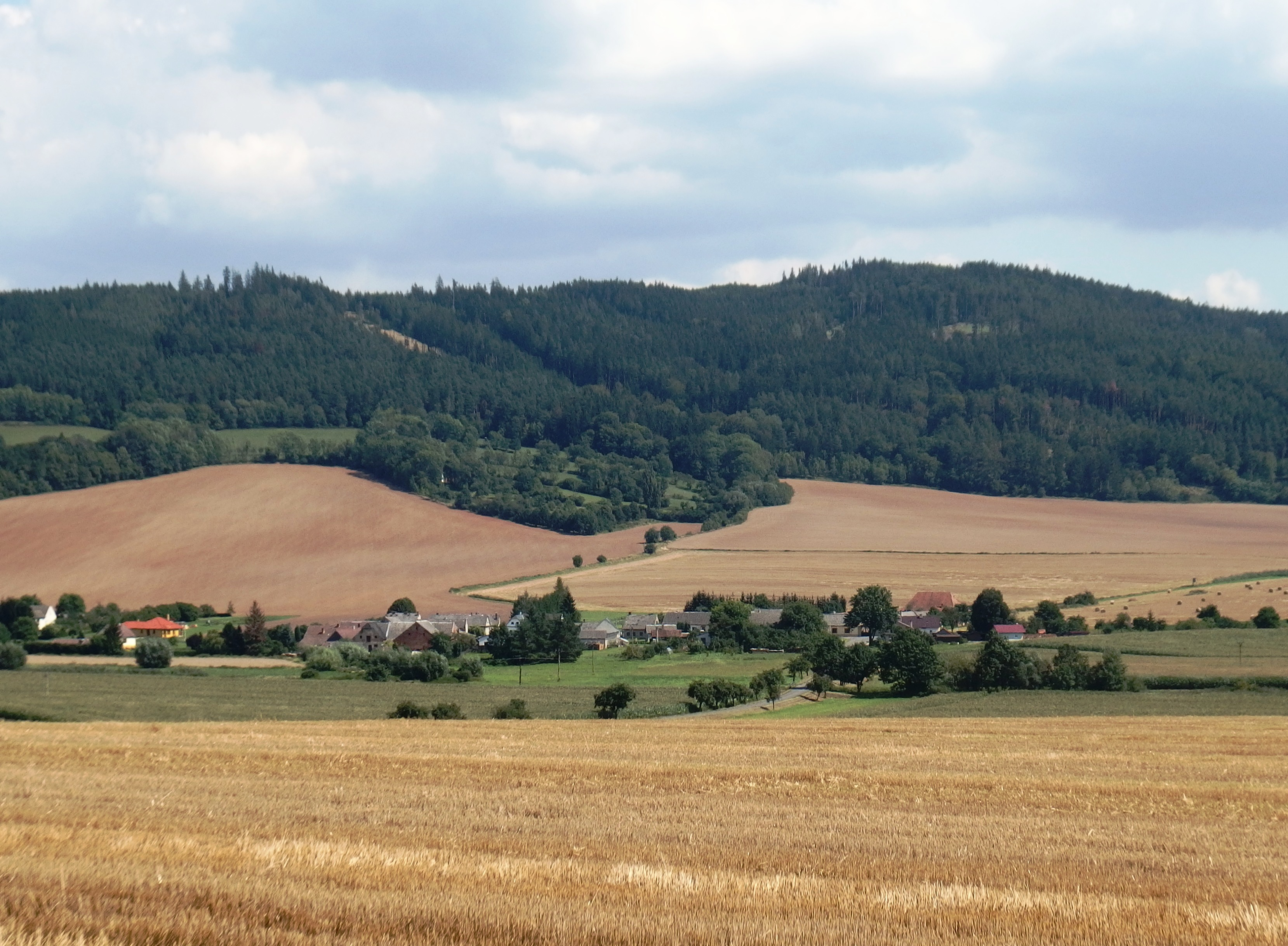 Bezděčí u Trnávky, Svitavy District, Czech Republic, part Unerázka.